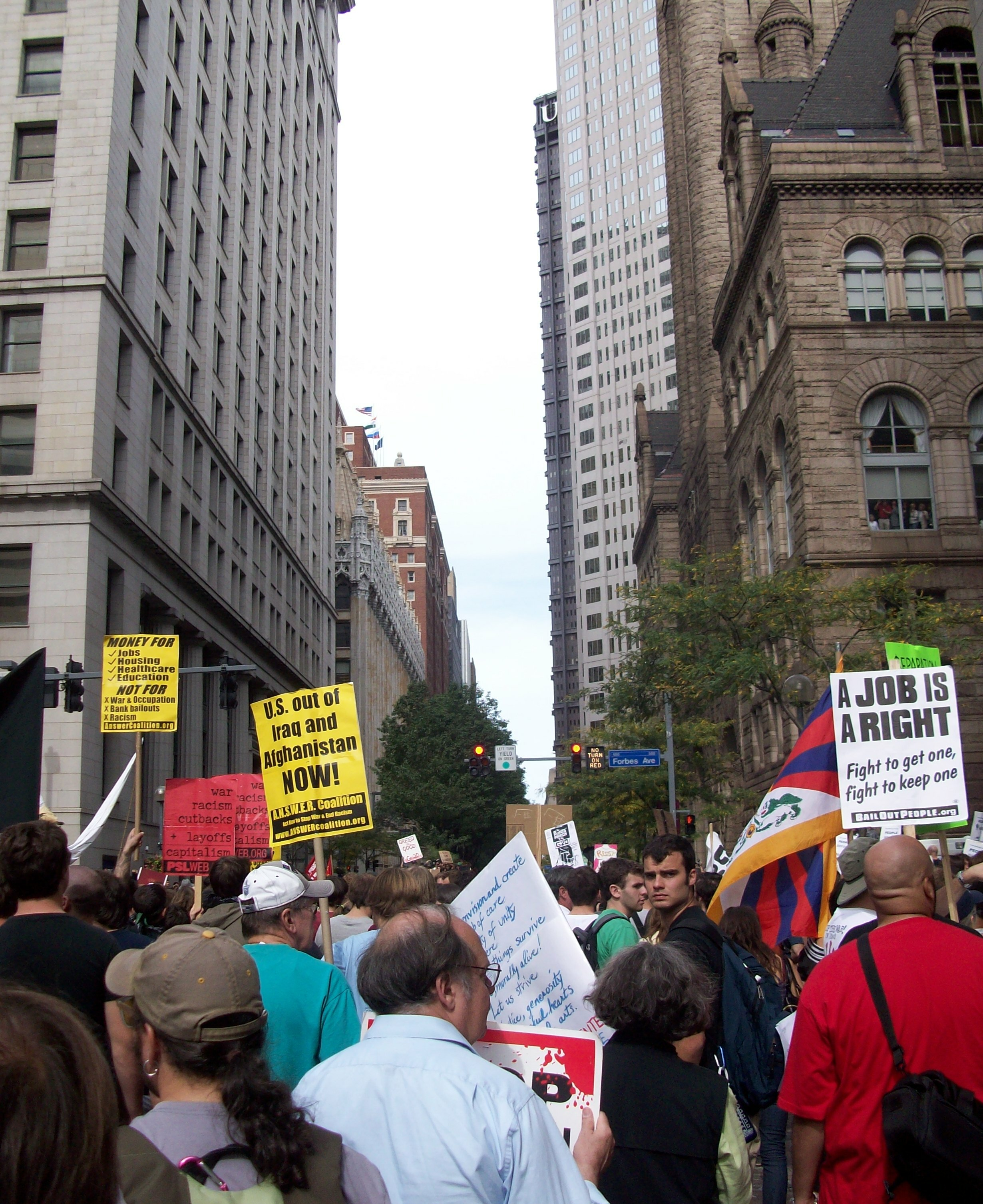 The Peoples' March, held during the 2009 G 20 Summit in Pittsburgh, begins its journey toward East Allegheny, after a series of speakers lectured in front of the City-County Building.